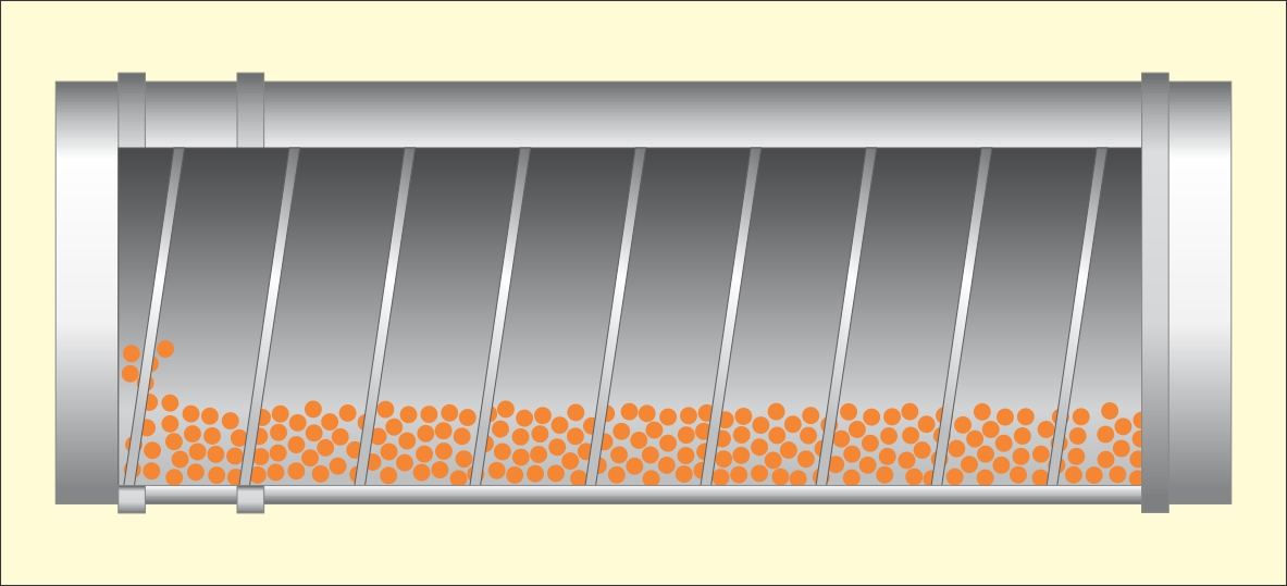 This technical drawing shows a cross section of an infrared drying drum used for the drying of Polyester pellets and polyester bottle flakes